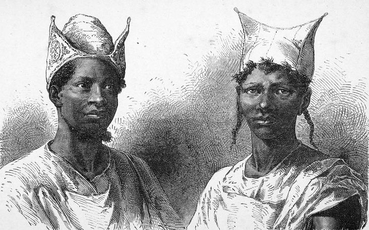 Bambara headgear